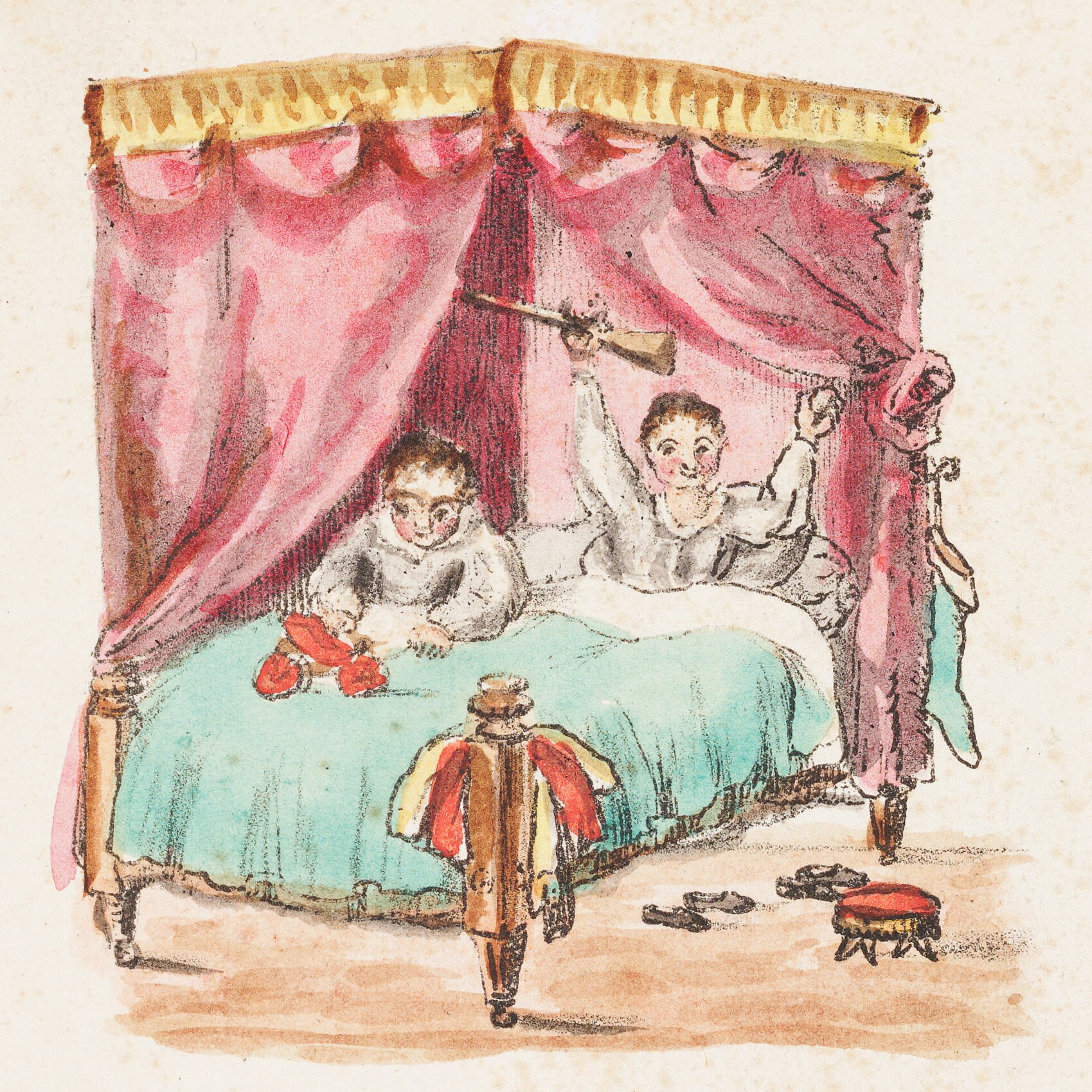 Illustration to verse 5 of the children's poem Old Santeclaus with Much Delight